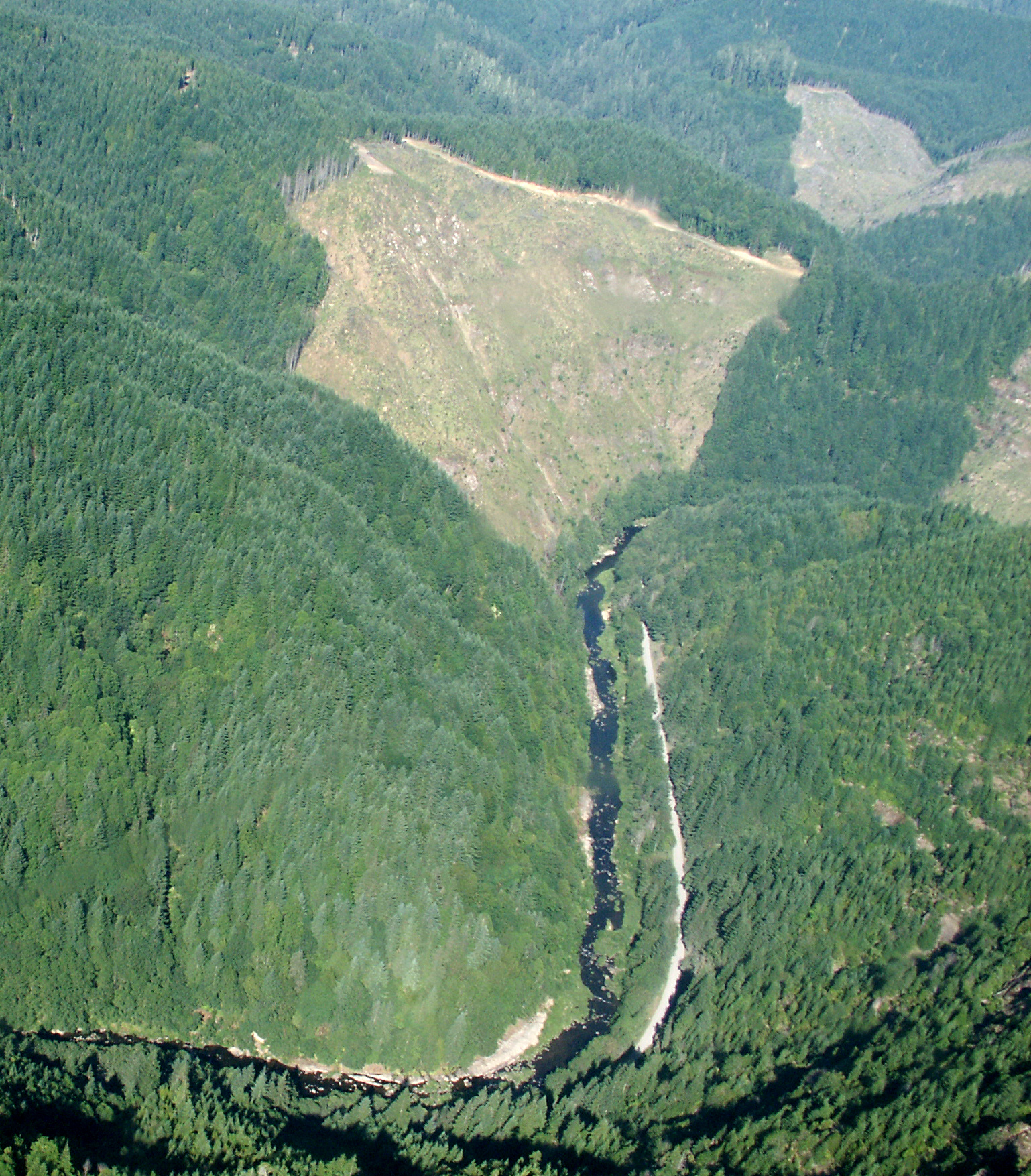 Forests and clearcuts along the Williams River, on the 209,000-acre Millicoma Tree Farm, owned by Weyerhauser in western Oregon in the United States. The Williams is a tributary of the South Fork Coos River.